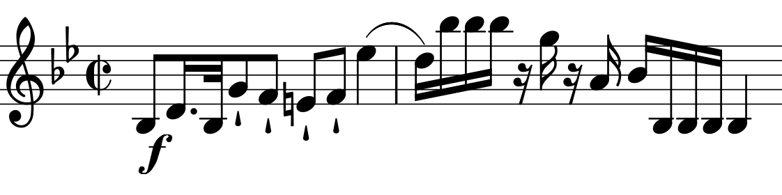 Joseph Haydn, Symphony No. 36, second movement, bar 1-2, first violin